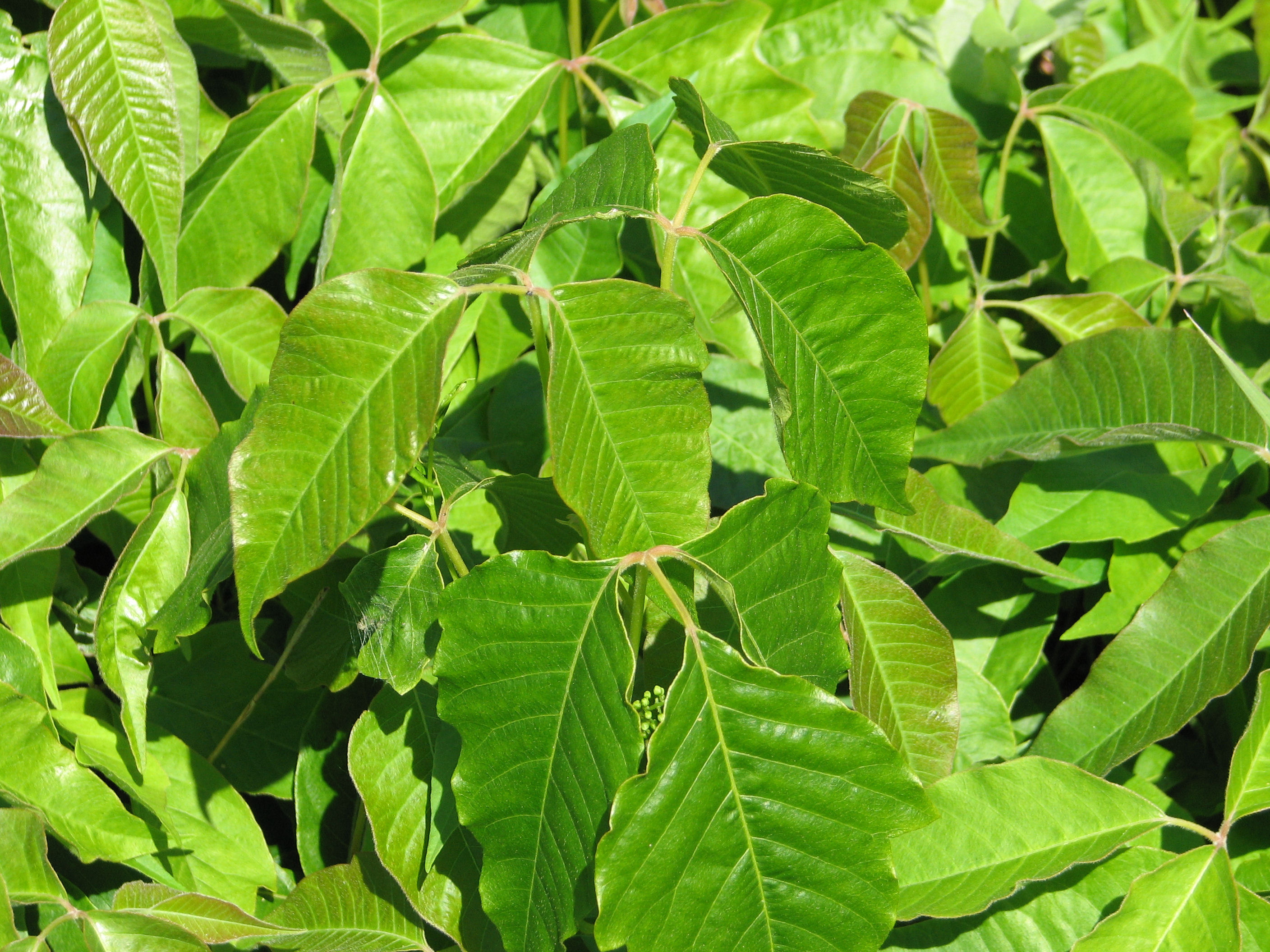 Poison Ivy (Toxicodendron radicans), Ottawa, Ontario, Canada